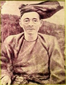 Photograph of Sultan Abdul Samad, ruler of the Federated Malay State of Selangor from 1859 to 1898.